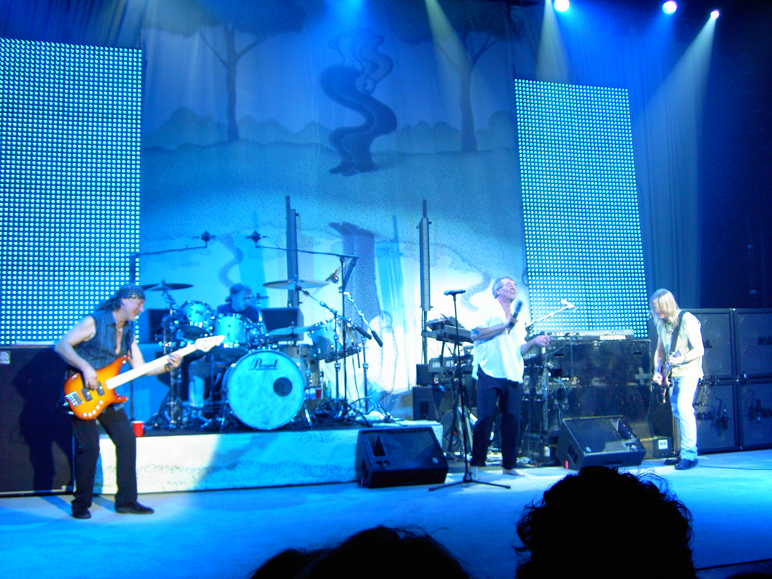 Deep Purple on the opening night of the Rapture of the Deep tour at London Astoria on 17 January, 2006.